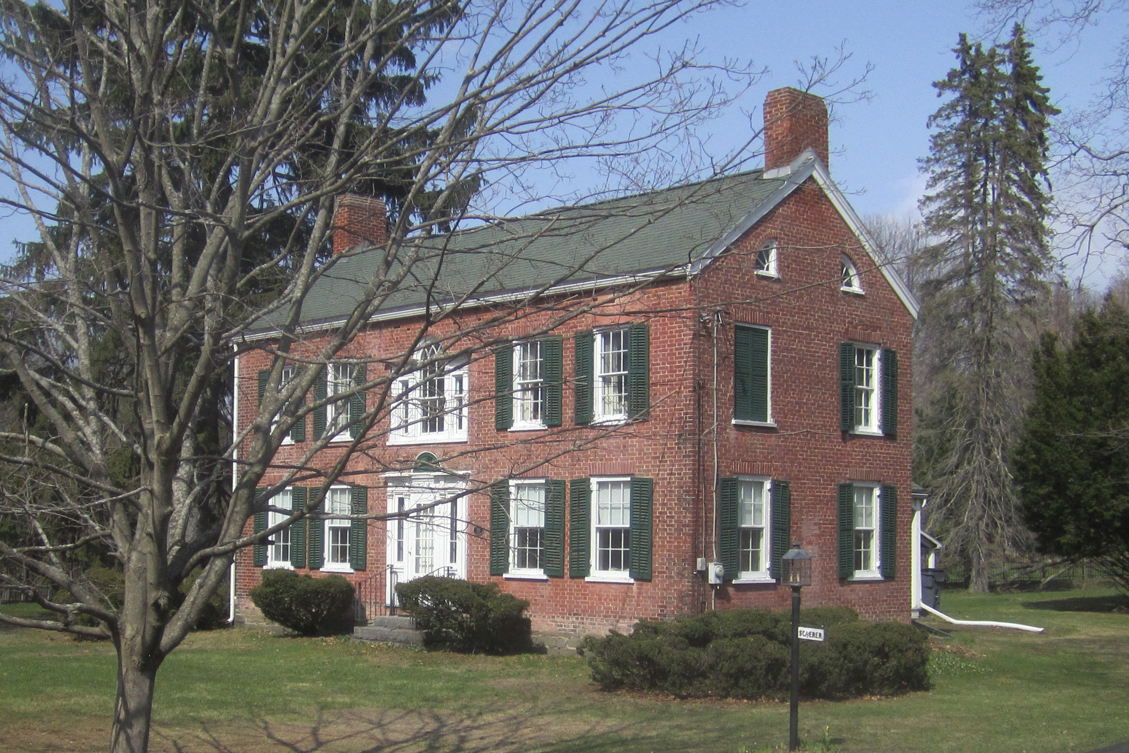 1815 Federal home of Abraham Best, Vischer Ferry NY.